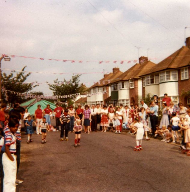 Ferncroft Avenue I took this picture at the Queen's Silver Jubilee party in June 1977. This picture is taken from opposite No. 41 Ferncroft Avenue.